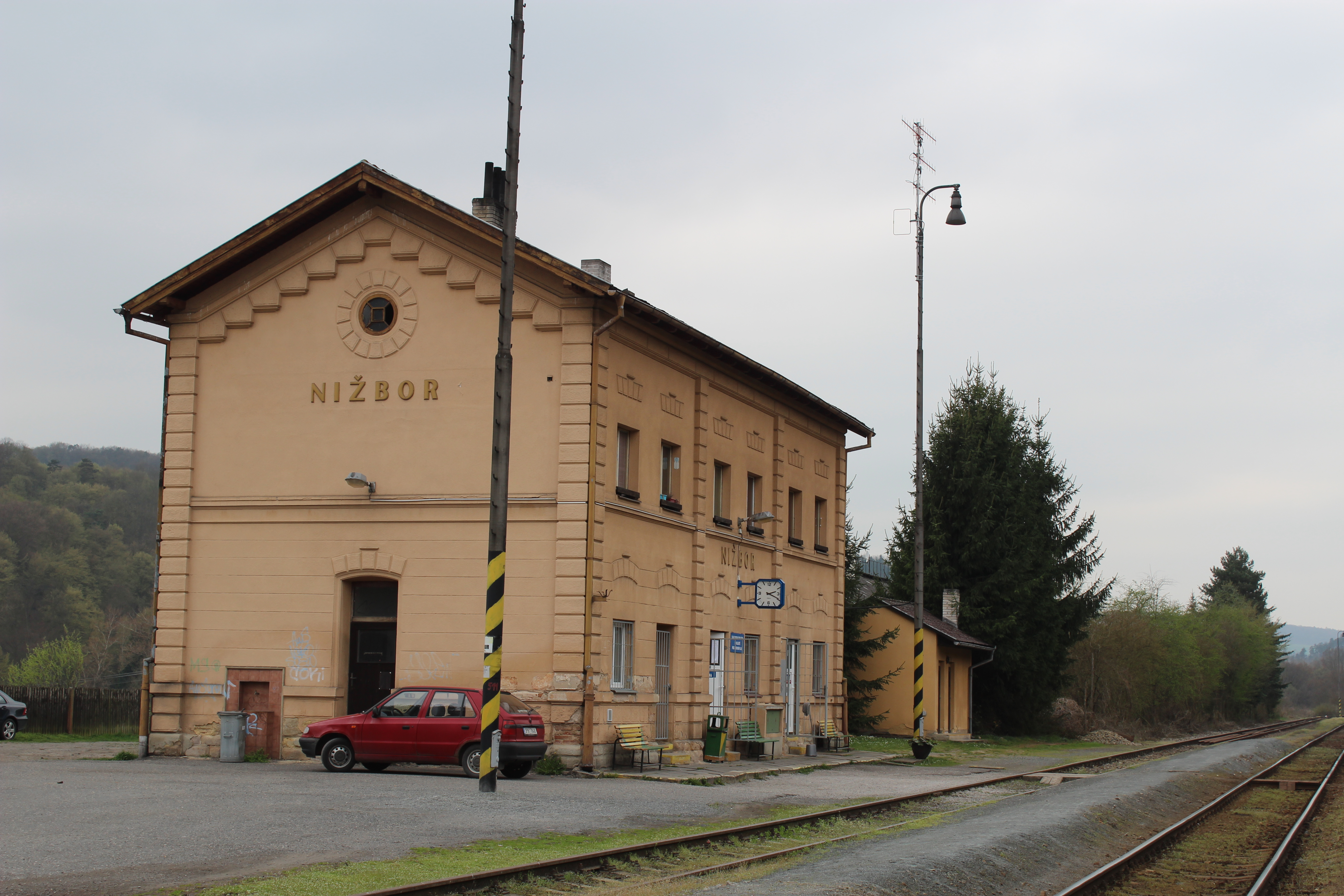 Nižbor (train station)